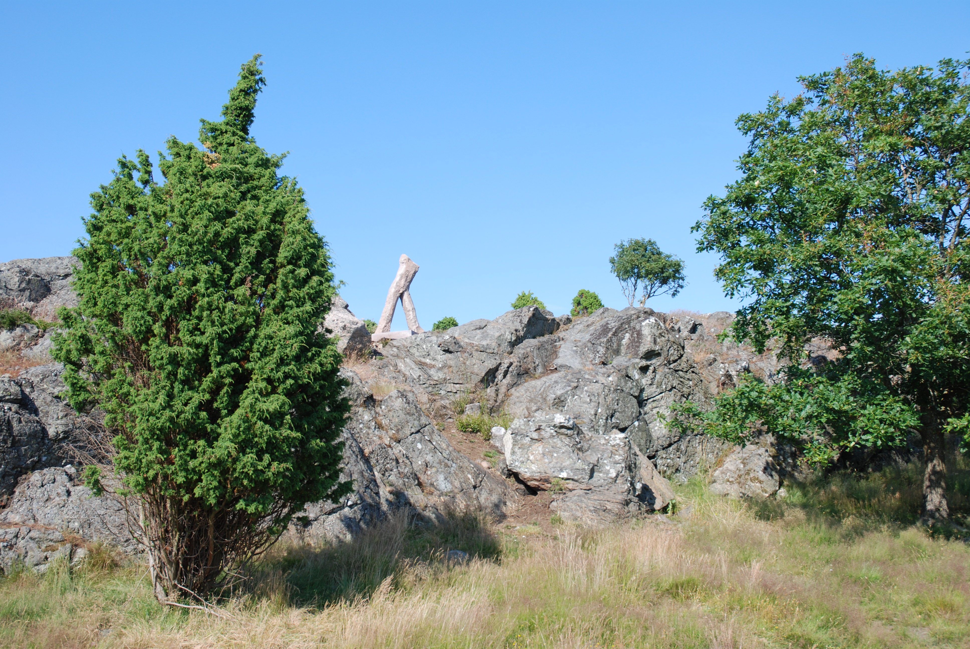 Gående (2007), sculpture in granite by Kristian Blystad, at Pilane Sculpture Park, Sweden